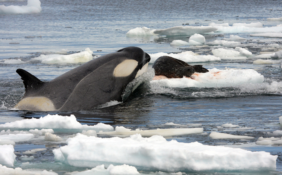 A type B killer whale, showing distinctive two-tone gray “cape” pattern and large eye patch, in a attempt to catch a Weddell seal on an ice floe near Rothera Station, along the Antarctic Peninsula. A seal prey specialist, it may represent a distinct species.